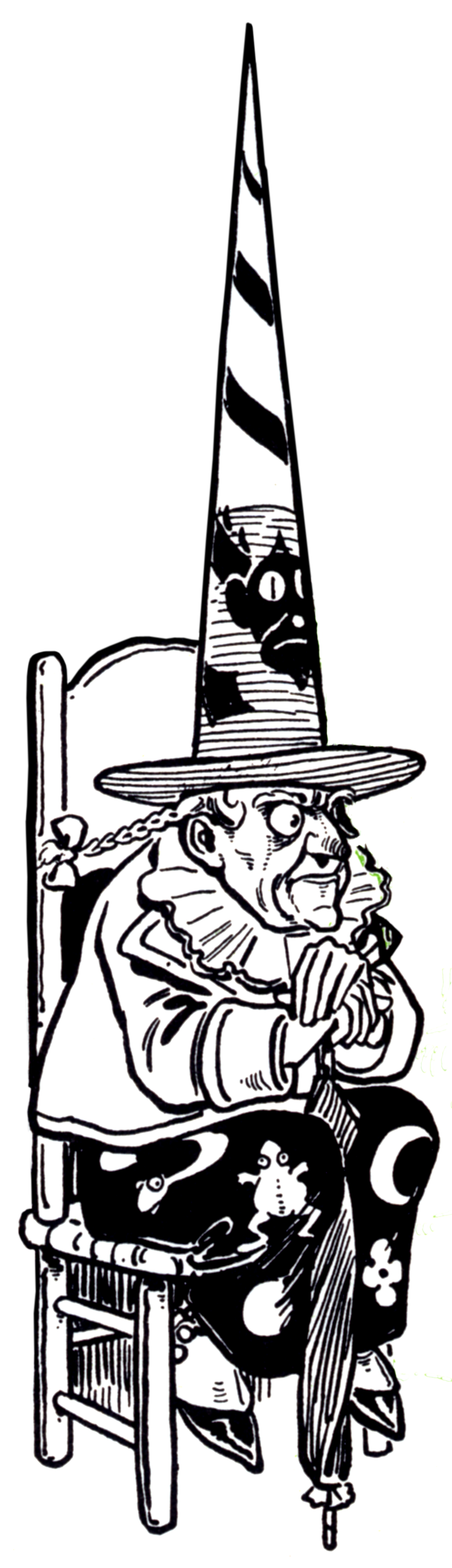 The Wicked Witch of the West as pictured in The Wonderful Wizard of Oz by L. Frank Baum